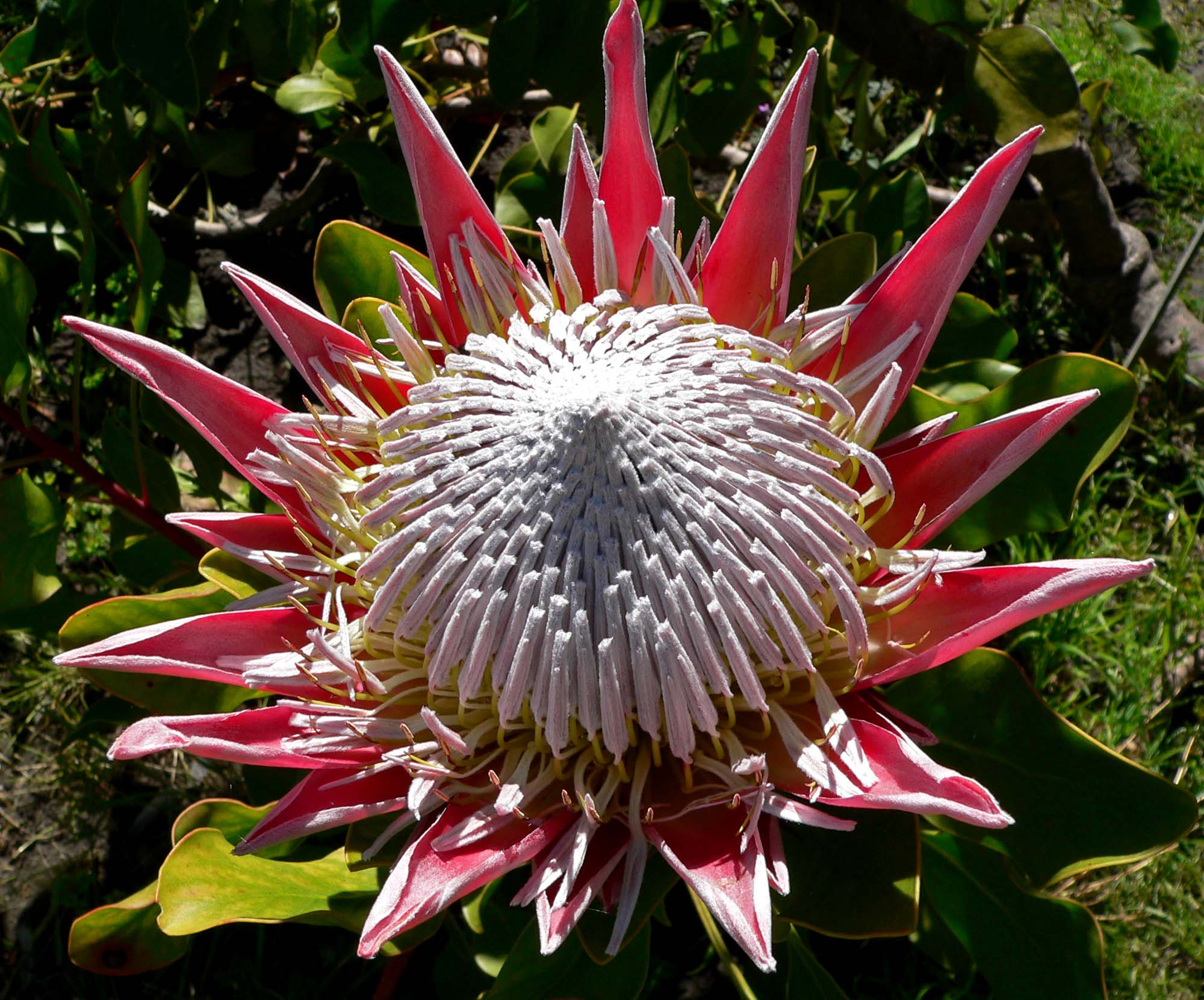 Photo of Protea cynaroides at the San Francisco Botanical Garden